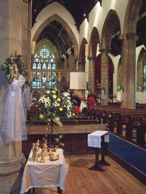 Inside the nave of St Mary's parish church, Ilkeston, Derbyshire, looking east to the chancel after the Christmas morning service